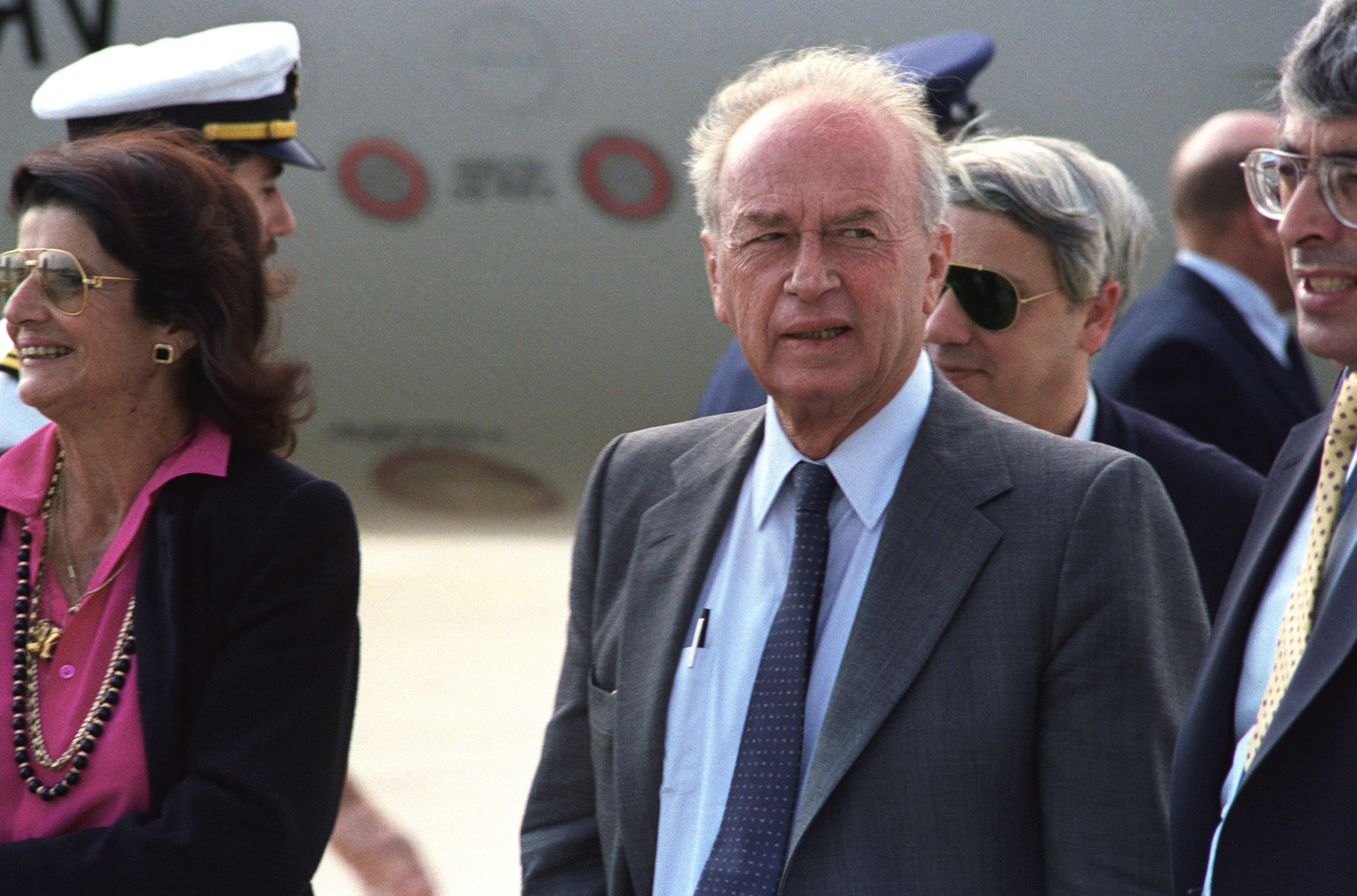 Israeli Minister of Defense Yitzhak Rabin arrives in the United States. Andrews Air Force Base, Maryland, USA